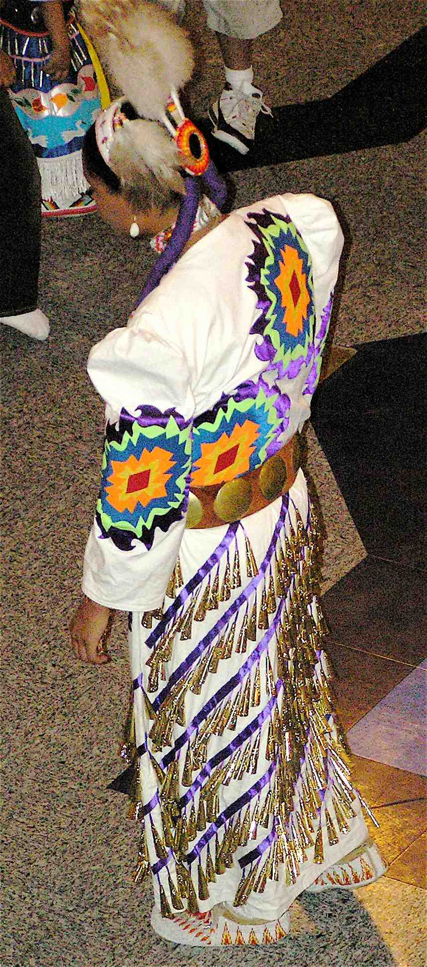 Image from Last Chance Community Pow Wow 2007, Helena, Montana